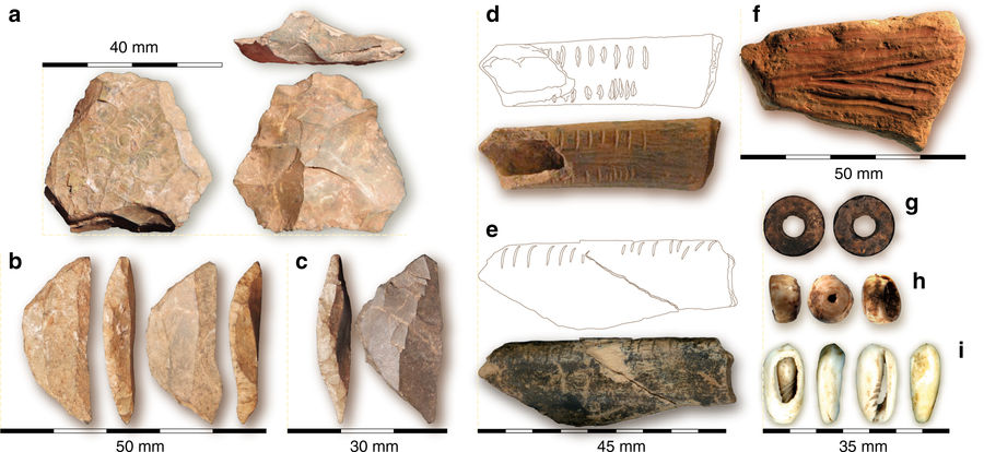 Artifacts from Panga ya Saidi cave, Kenya. a: Levallois core. b: Two backed lithic artifacts. c: Backed lithic artifact. d + e: Notched bone. f: Ocher crayon. g: Ostrich eggshell. h: Conus shell bead. i: Gastropod shell bead.